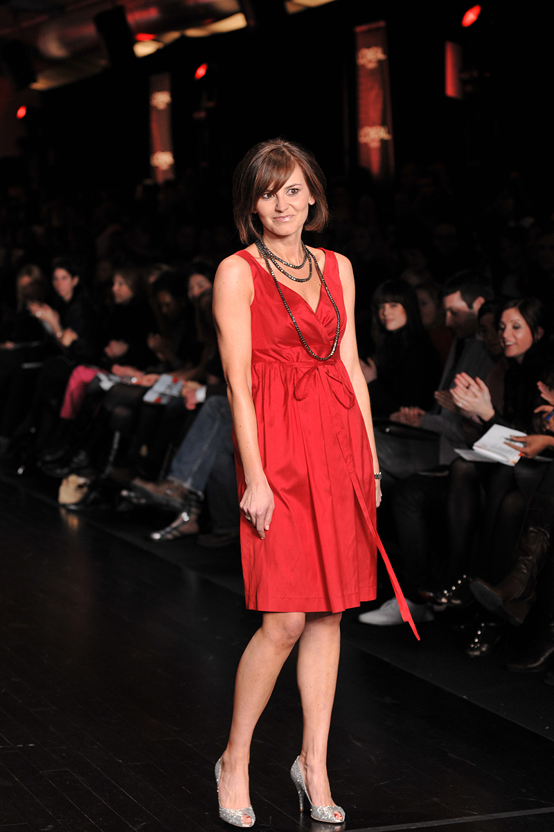 TV host Kristina Matisic, wearing an outfit by Tavãn & Mitto, modelling at the Heart Truth Red Dress fashion show.